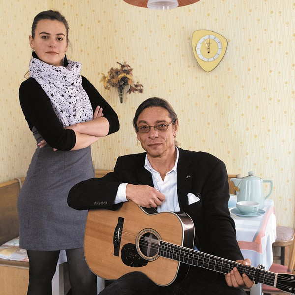 Porträtfoto von Michael Lösel und Susanne Rudloff, dem duo wortbruch